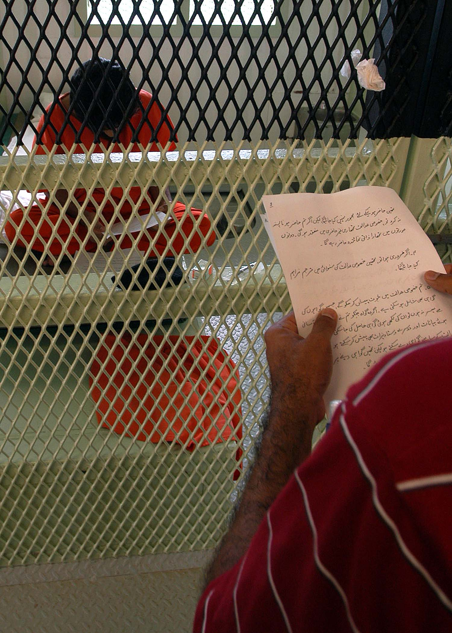 Guantanamo Bay, Cuba - The Combatant Status Review Tribunal Notice is read to a detainee. Photo by Airman Randall Damm, USN